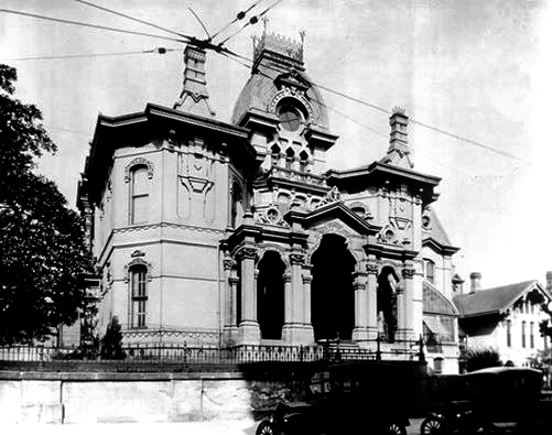 This mansion in Memphis, Tennessee was the home of Napoleon Hill, a wealthy businessman. Designed in French Renaissance style, the mansion was constructed in 1881 at the corner of 3rd and Madison in downtown Memphis. The business district location later led to its downfall, as the mansion was torn down by 1930 to build the Sterrick Building.